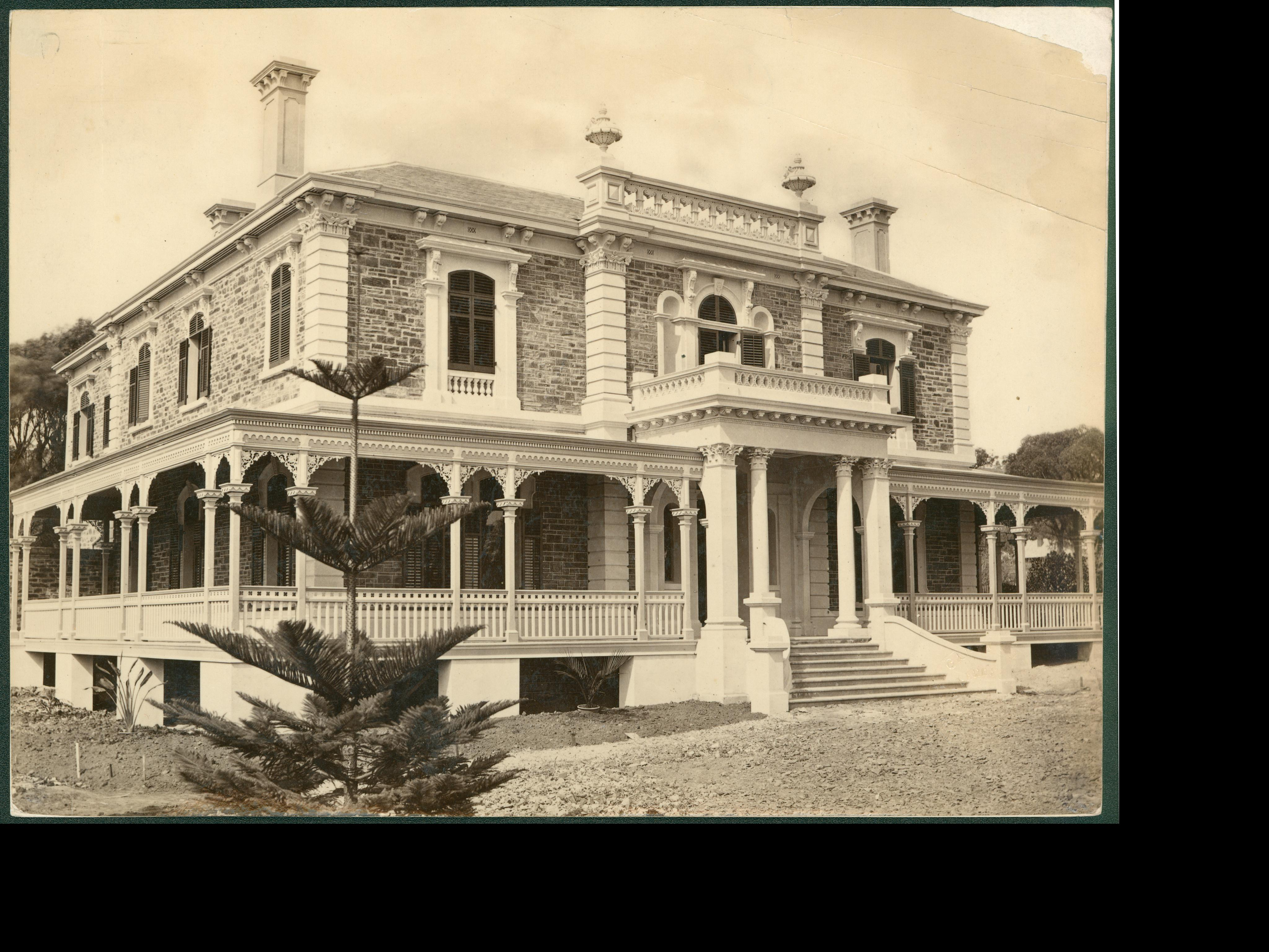 Glen Osmond: "Benacre" Benacre house (without land) is at 6 Benacre Close, off Glen Osmond Rd between Fisher St and Fergusson Ave. 1844 a single-storeyed house was built by G.F. Shipster after the subdivision of section 270 by the main road it passed to Robert Cock. 1846 Purchased on 16 acres by William Bickford who planted the first garden and built a portion of the residence. The next owner was T.B. Strangways, followed by Thomas Graves, who had the grounds replanted as a shrubbery and built 'the present two-storey house.' mid-1870's: Henry Scott, Mayor of Adelaide. During Scott’s tenure of some 30 years, he hosted countless social events. 1906-1923 John Lewis At the death of Hon. John Lewis the property was subdivided into 39 building blocks. 1924-1968 Gretta Lewis ... 1970 Further subdivision: Benacre subdivision [fifteen magnificent residential allotments, the gracious mansion 'Benacre', two storeyed stone mews, to be sold by auction on the estate 2nd May, 1970 at 10.30 a.m.] Adelaide : Matters & Co. Pty. Ltd. [and] Theodore Bruce & Co. Pty. Ltd. ...